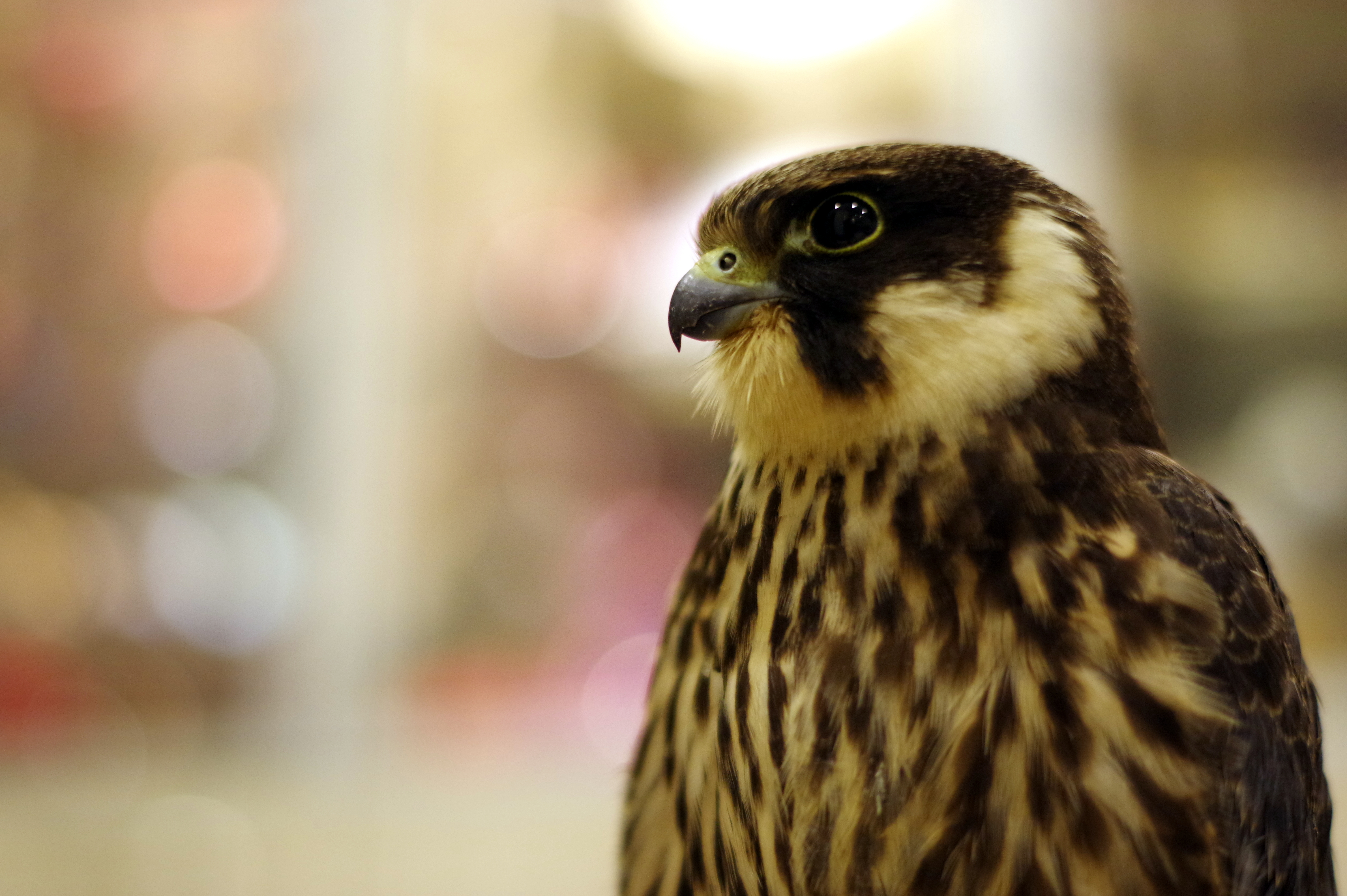 Falco subbuteo